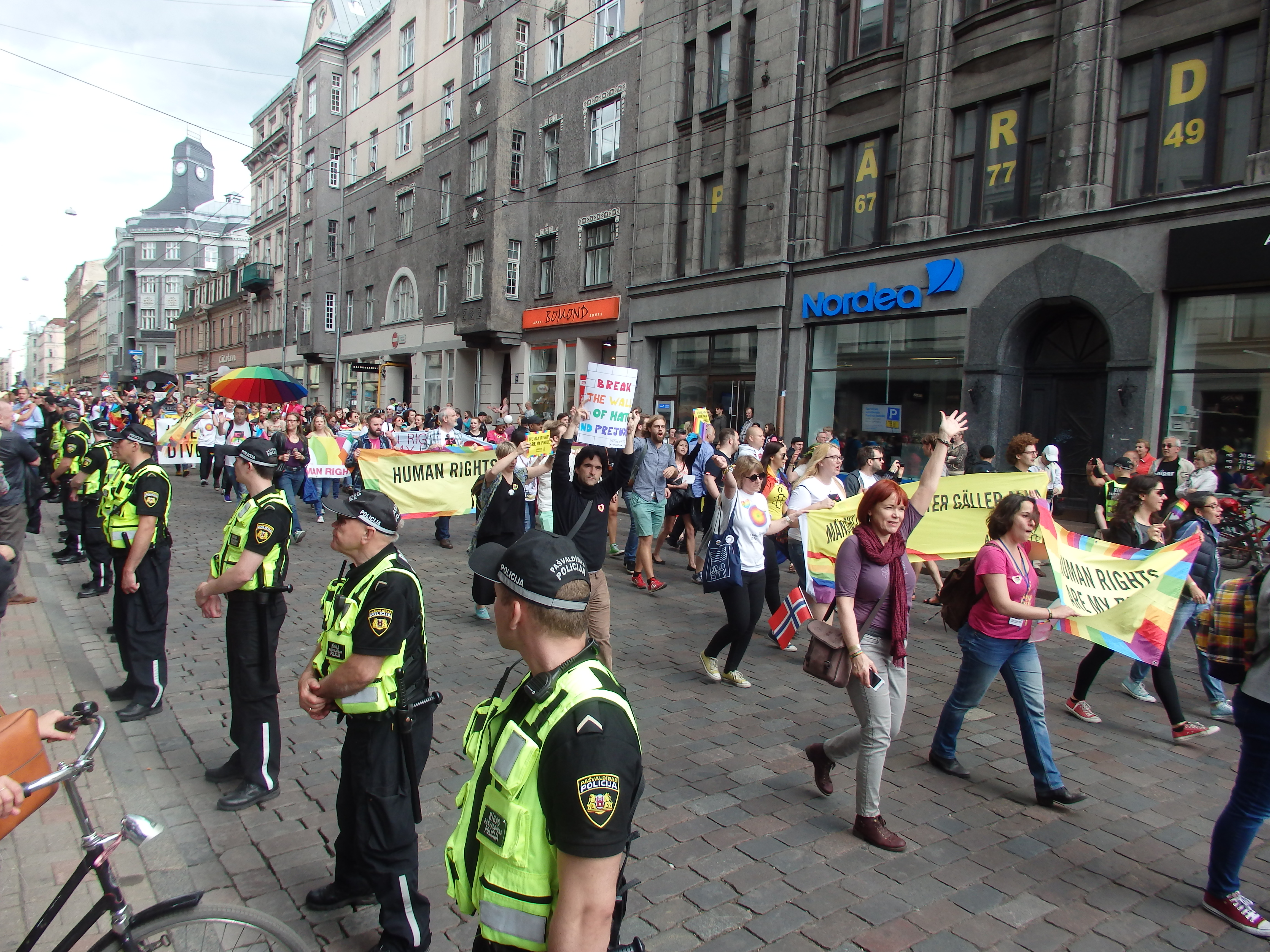 Europride in Riga (2015)